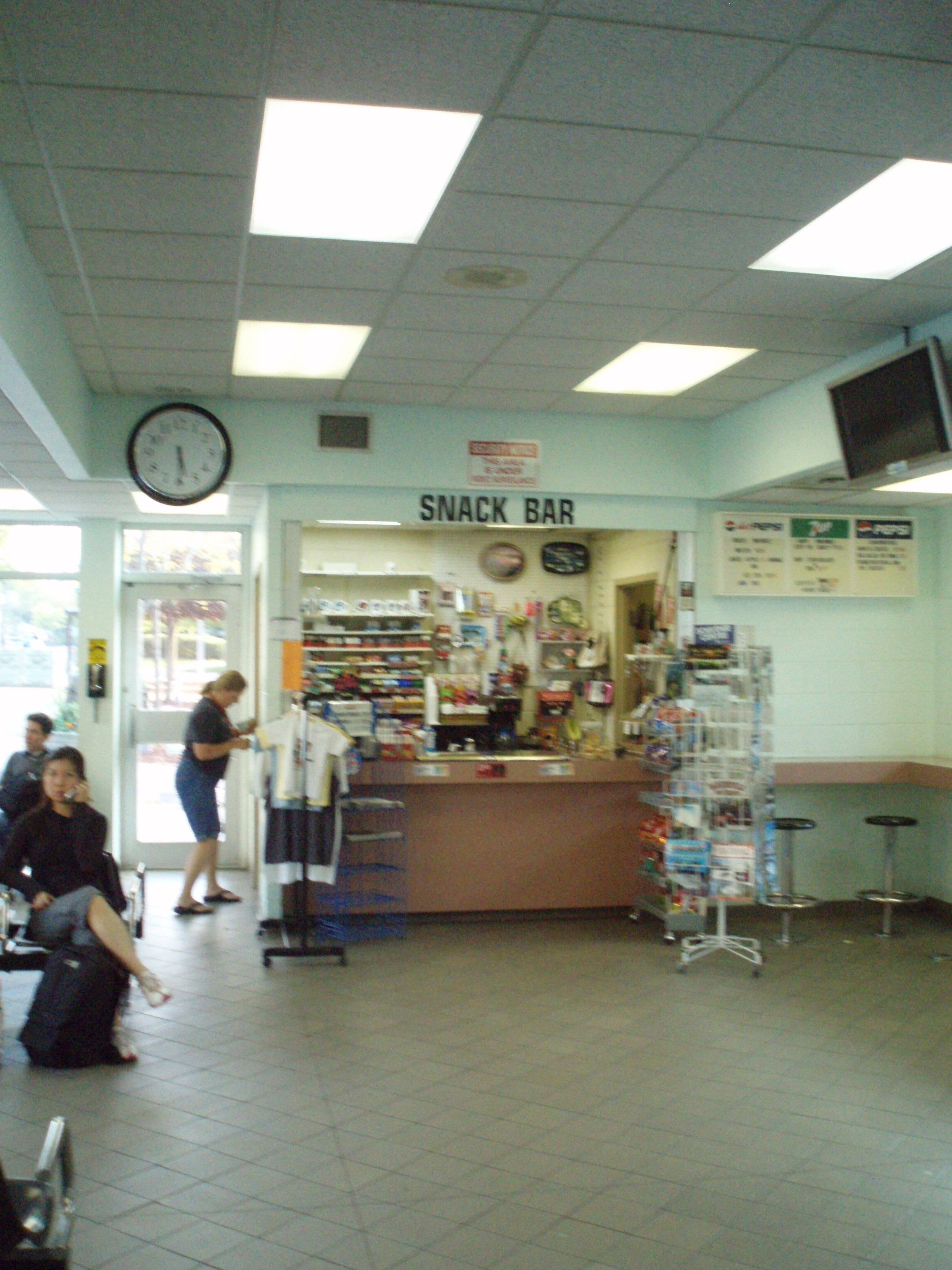 The snack bar, on the Southern end of the building, sells sandwiches, newspapers, coffee, candy, souvenirs, etc.